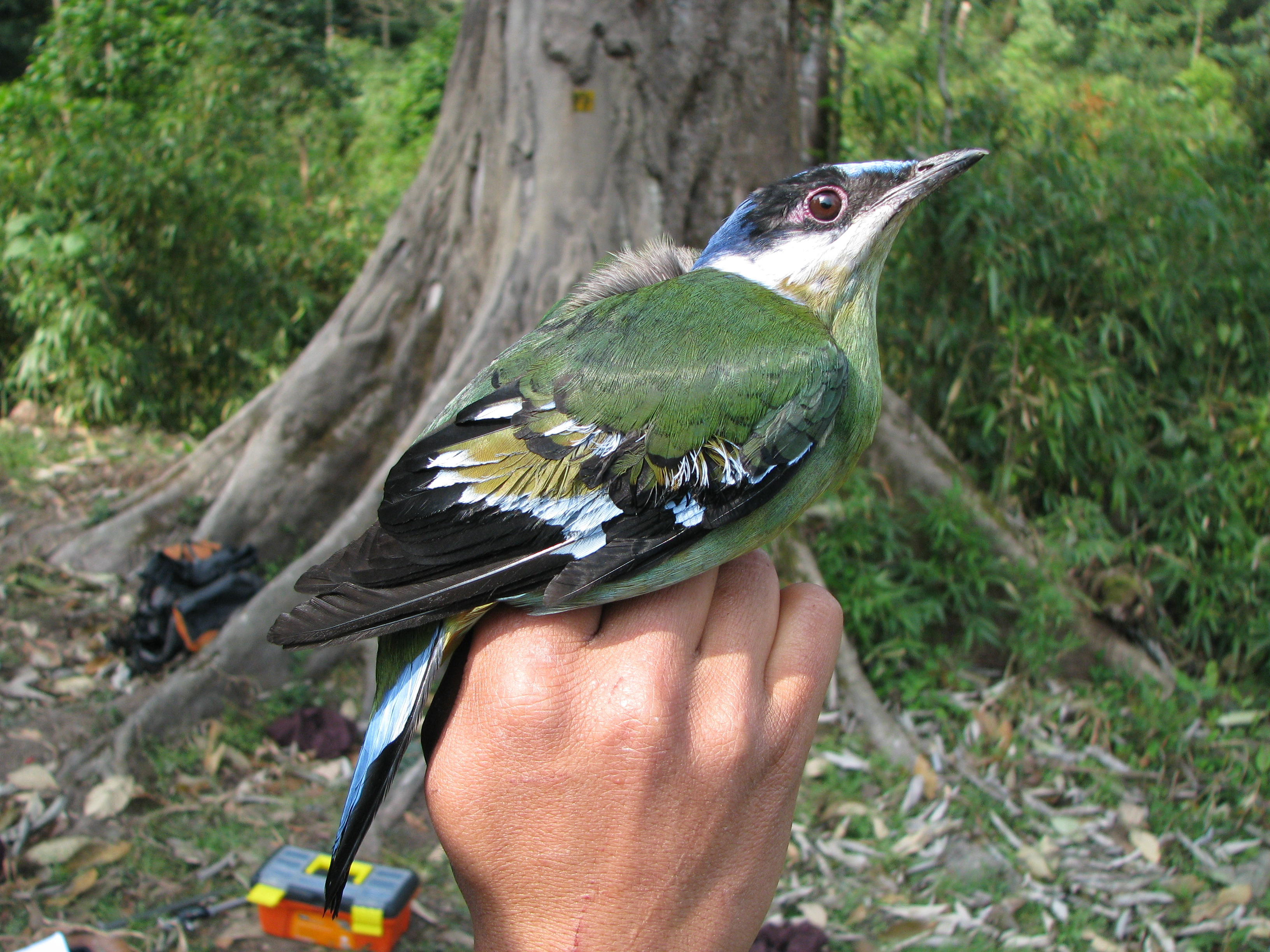 A female Green Cochoa. This bird was netted and ringed in Eaglenest Wildlife Sanctuary, Arunachal Pradesh, India.